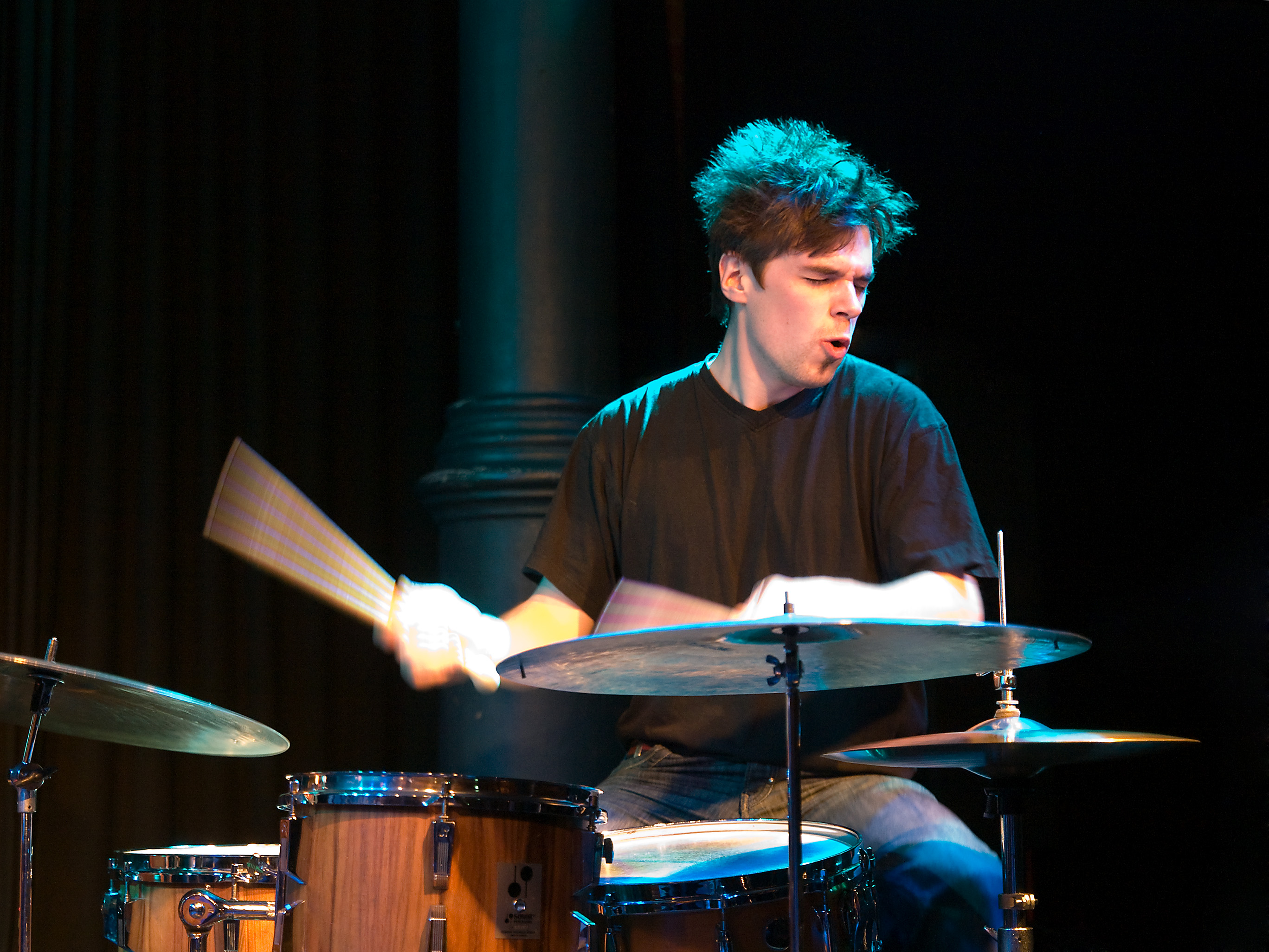 Jonas Burgwinkel, Jazz drummer; Picture taken in Jazz Club Unterfahrt, Munich/Bavaria